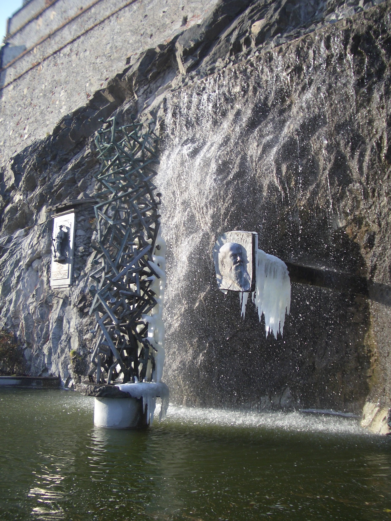 Ivrea, monument to Camillo Olivetti (in the wintertime)